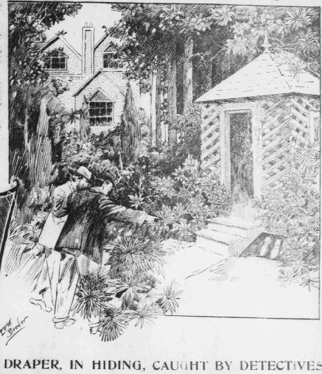 Thomas Draper in hiding caught by detectives August 11 1878, spotted by Thomas Murphy of the Brooklyn Police, in the summer house of a Gothic cottage on Patchen Avenue, Brooklyn?